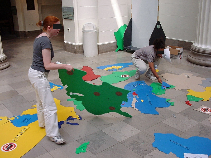 Field Museum, Chicago, Illinois, USA